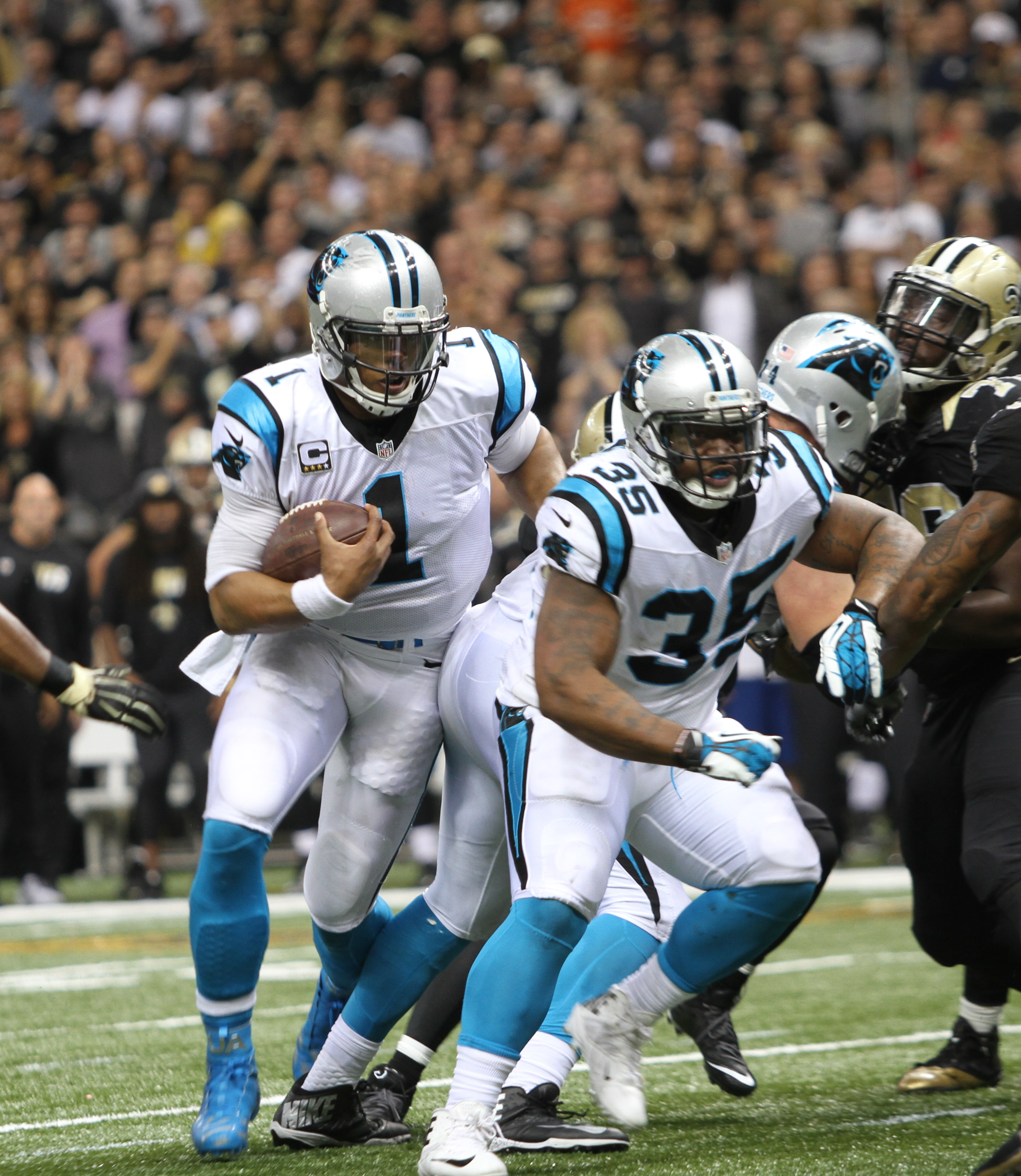 New Orleans Saints vs Carolina Panthers, December 6, 2015, Tammy Anthony Baker, Photographer